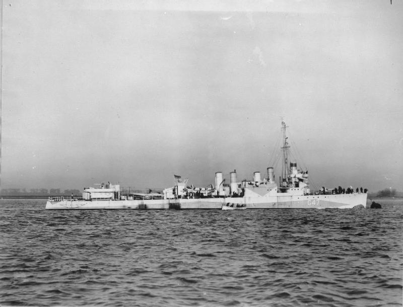 HMS Newmarket Secured to a buoy at Sheerness.